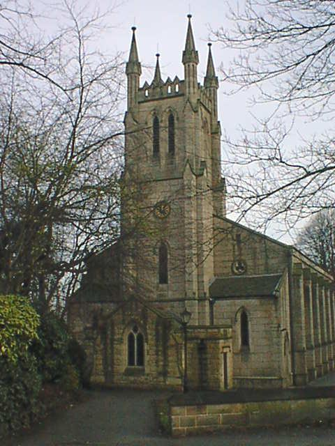 Chesterfield - Holy Trinity Church (Newbold Road)